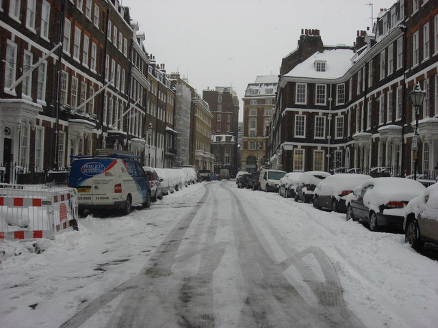 Queen Anne's Gate